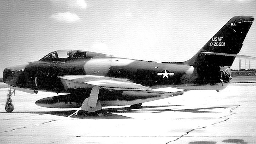 170th Tactical Fighter Squadron Republic F-84F-40-RE Thunderstreak 52-6631 about 1968 in Vietnam-Era camoflauge